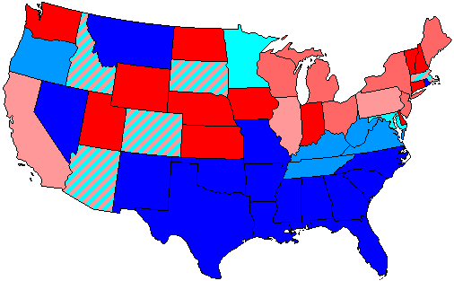 Summary of party control of U.S. house seats in the 85th United States Congress following election. Stripes indicate a tie between two or more parties. Legend: 80.1-100% Democratic seat majority 60.1-80% Democratic seat majority 60% or less Democratic seat plurality 60% or less Republican seat plurality 60.1-80% Republican seat majority 80.1-100% Republican seat majority